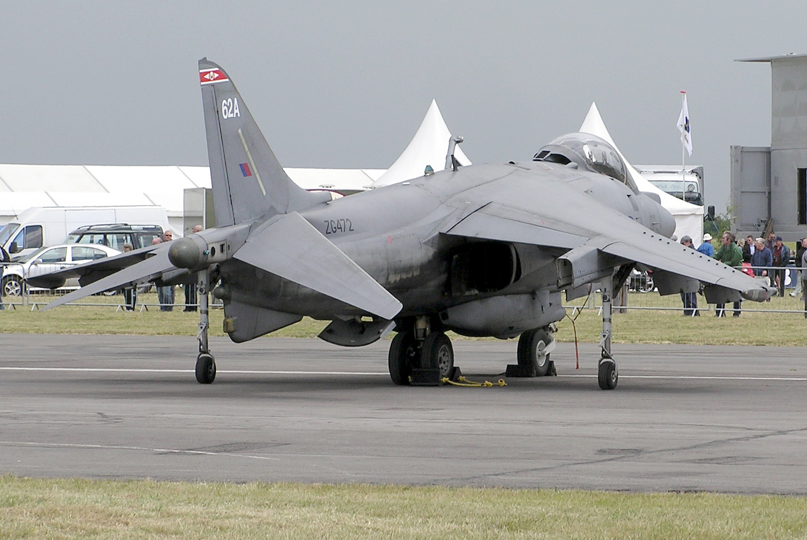 BAe Harrier GR7 (ZG472), 1 Sqn RAF, at Kemble Airfield, Gloucestershire, England. Photographed by Adrian Pingstone in June 2004 and released to the public domain.